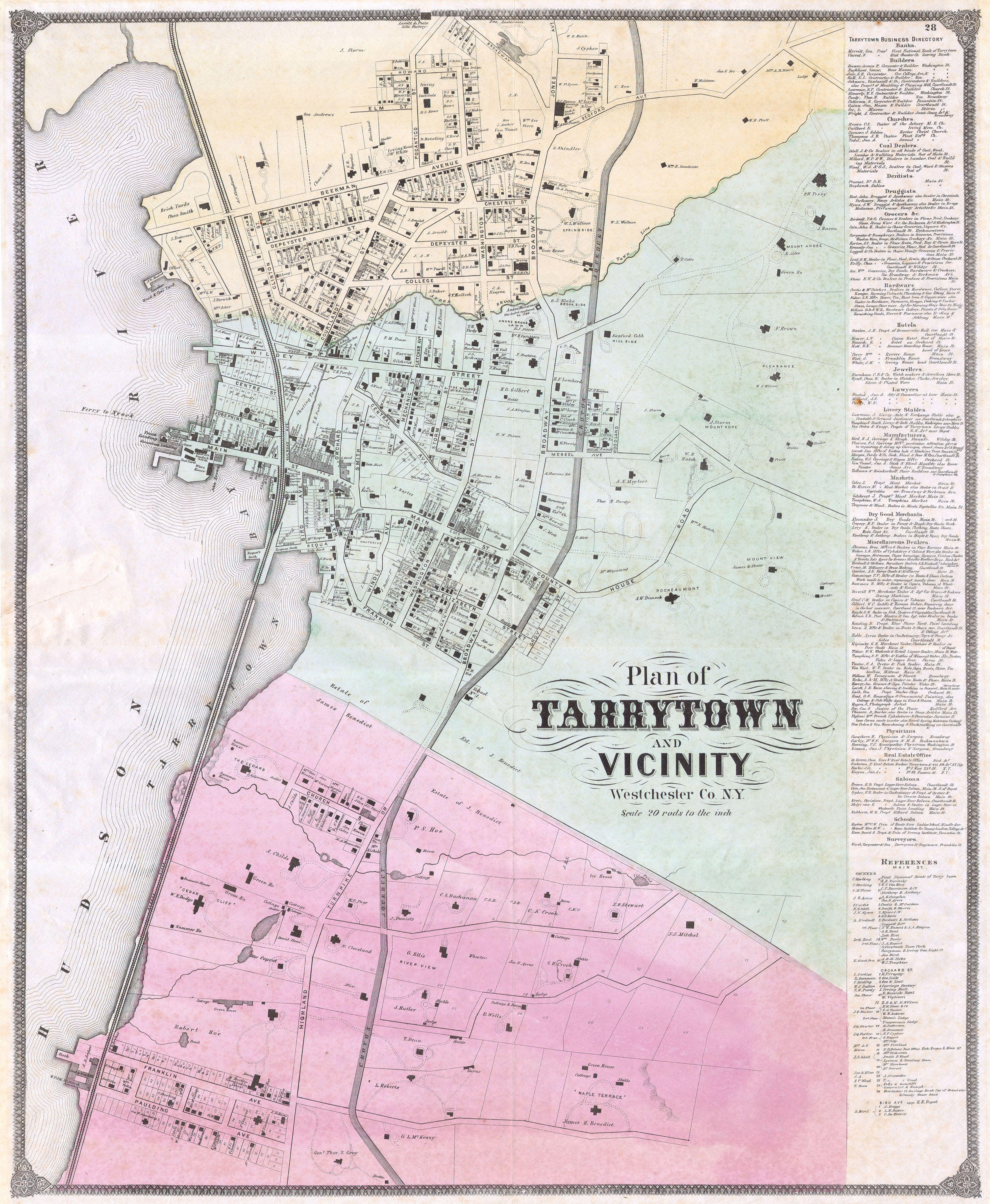 This is an extraordinary and rare large format F. Beers map of Tarrytown, New York. Map is a hand colored lithographic engraving dating 1868. Tarrytown is a prominent town on the Hudson river and the location of the important Tappan Zee Bridge. It is also the setting for the wonderful 19th century short story, “The Legend of Sleepy Hollow”. This map shows the area in extraordinary detail and includes the names of individual households and land owners – even the shape of their homes! Right hand side of the map features a regional directory of Banks, Hotels, Markets, Livery Stables, Saloons, Schools, Blacksmiths, and many others. Produced by prominent 19th century American map publisher Frederic Beers in his seminal 1868 Atlas of New York and Vicinity. This map is extremely rare and the first we have seen on the open market.